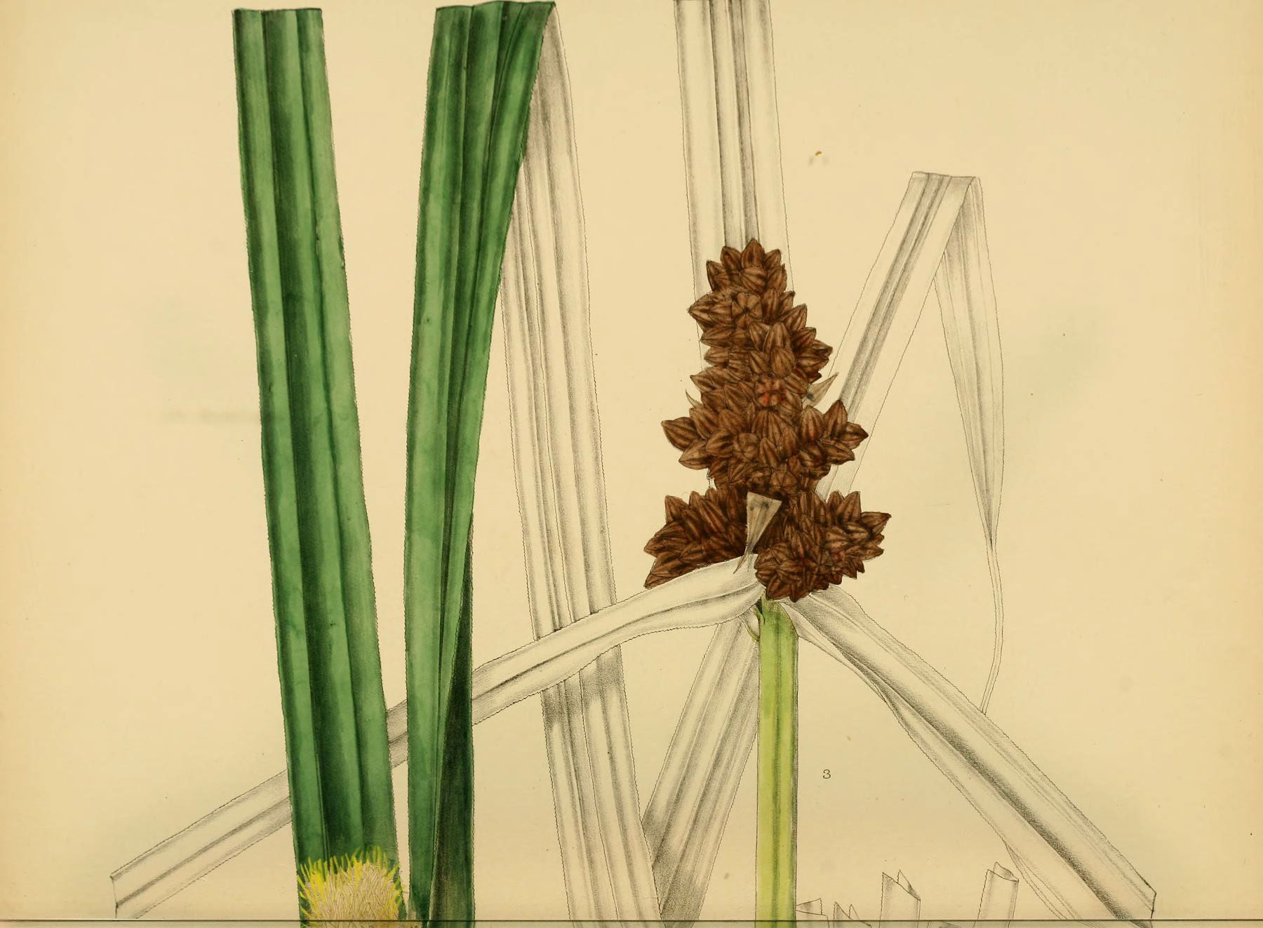 A hand-book to the flora of Ceylon : containing descriptions of all the species of flowering plants indigenous to the island, and notes on their history, distribution, and uses : with an atlas of plates illustrating some of the more interesting species /